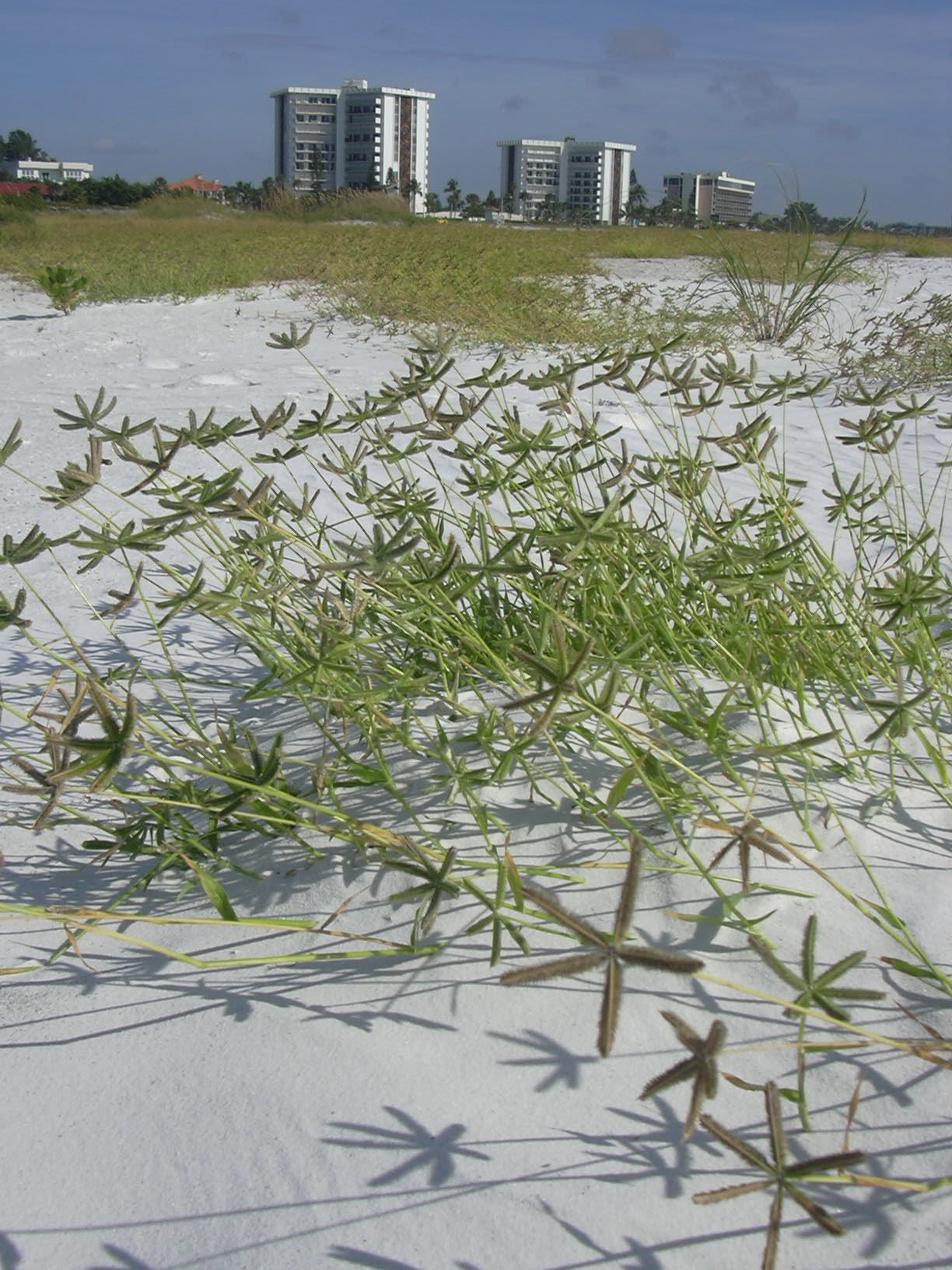 Dactyloctenium aegyptium (habit). Location: Florida, Lido Beach